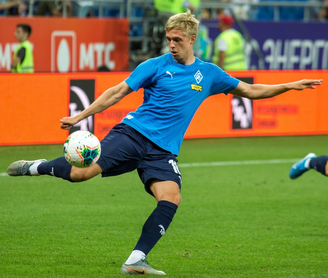 Anton Terekhov warming up for PFC Krylia Sovetov Samara before the game against FC Rostov.